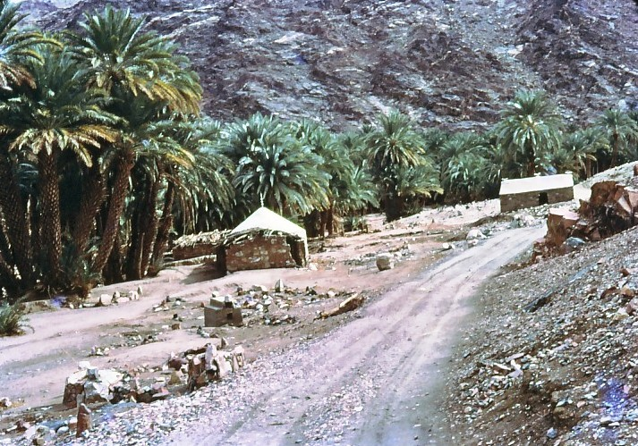 Entertainment